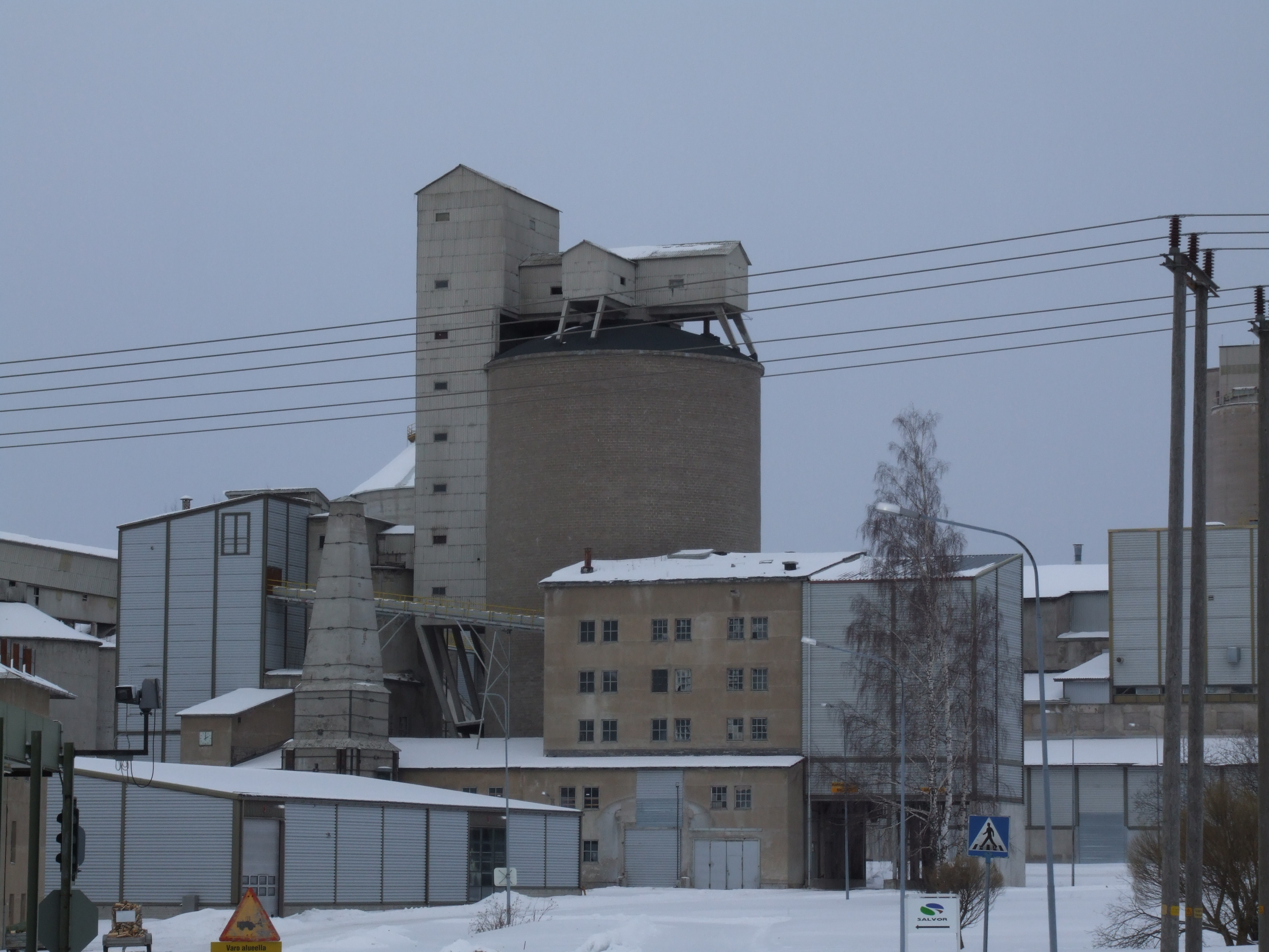 Virkkala limestone- and cement factory, picture taken from the factory gate in march 2006. The obelisk-like building on the left is the original lime kiln from 1897.